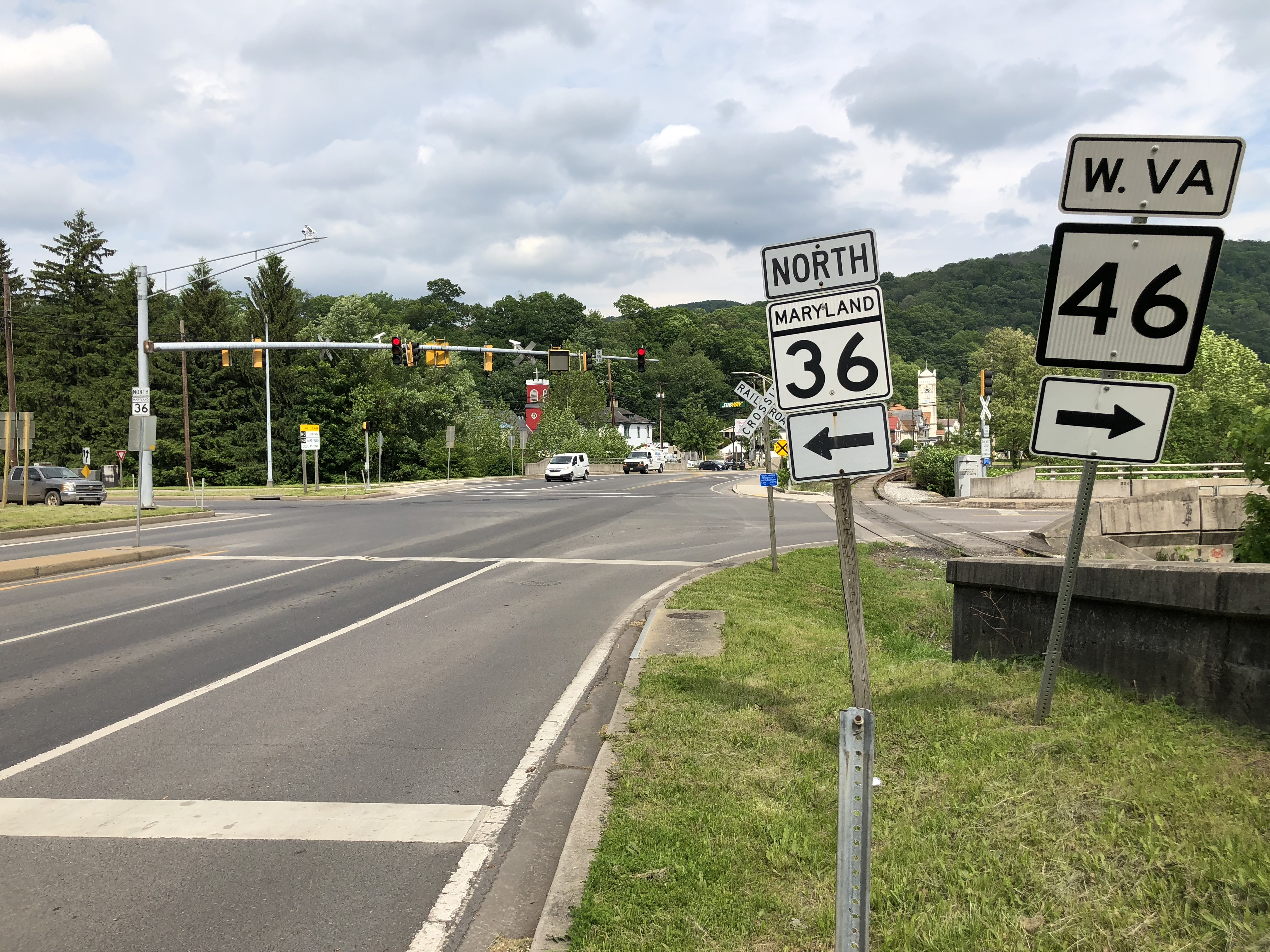 View east along Maryland State Route 135 (Church Street/Front Street) at Maryland State Route 36 (New Georges Creek Road) in Westernport, Allegany County, Maryland